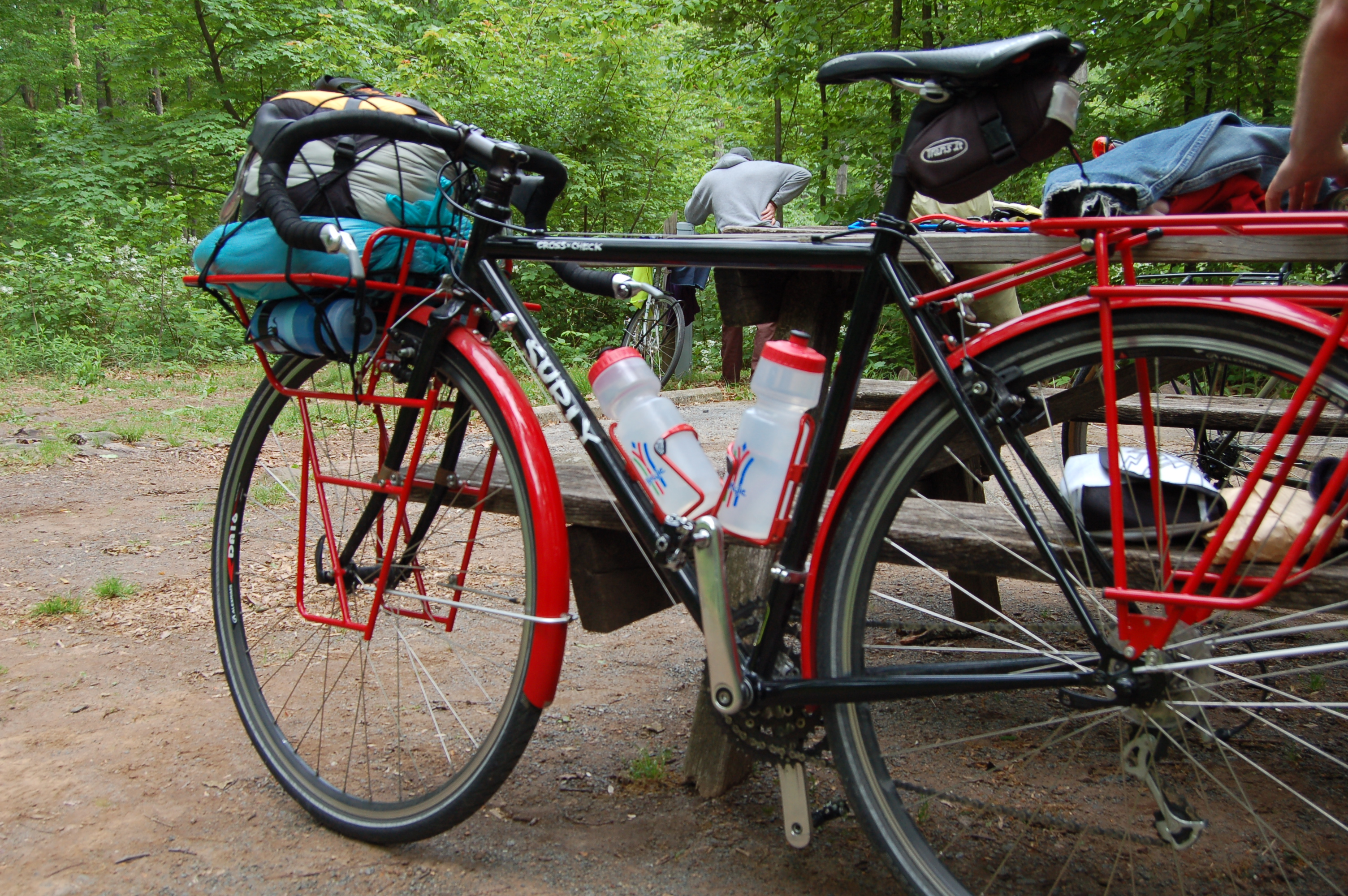 Bicycle touring French Creek State Park